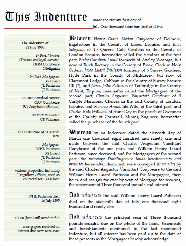 Annotated transcription of the original 1902 Conveyance in which Florence and Charles Conybeare transfer (convey) one of the properties belonging to their estate, namely: Tregullow Offices.